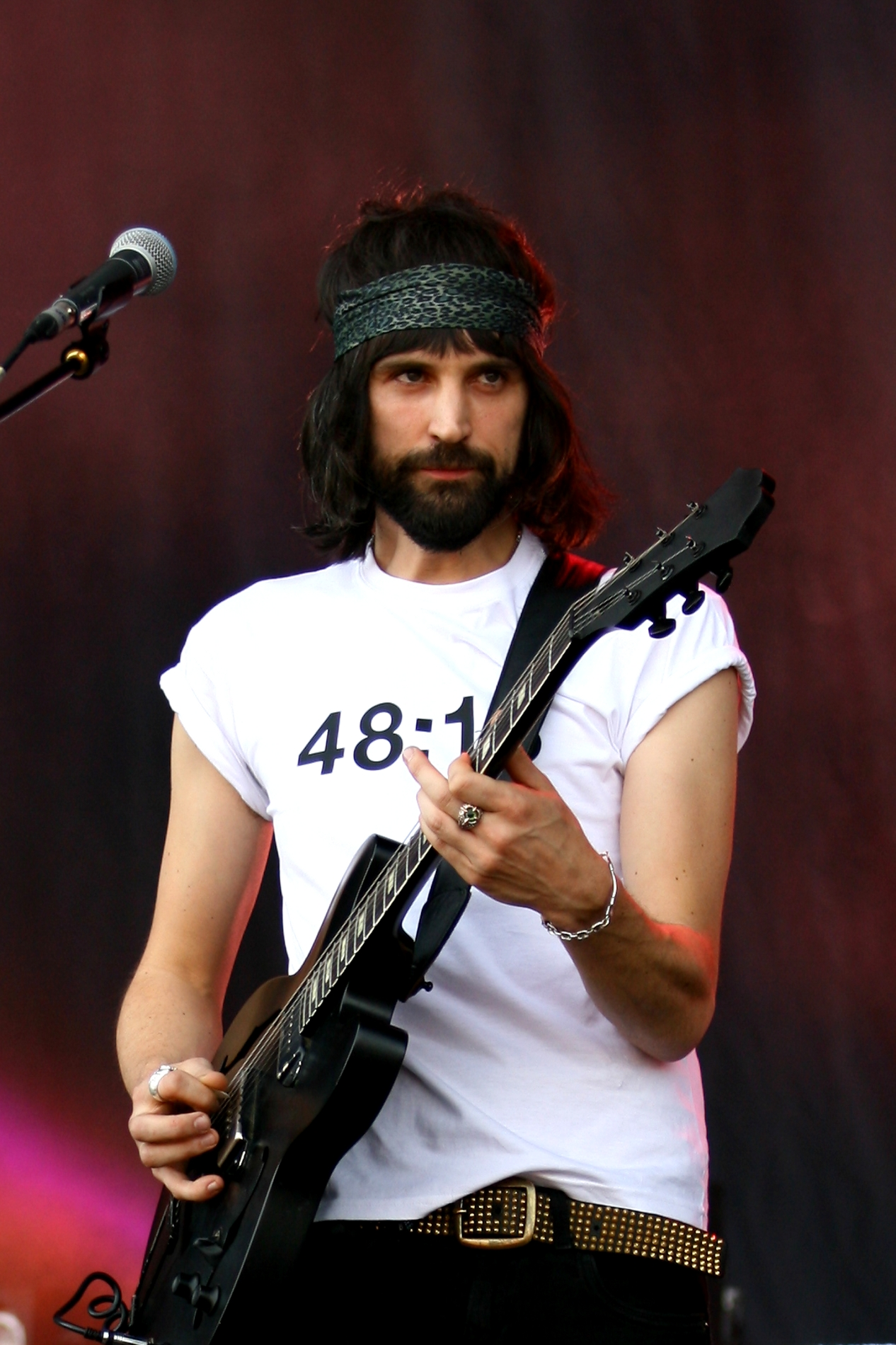 Sergio Pizzorno, guitarist of Kasabian, on the Centerstage of Rock im Park Festival 2014. Festivalsommer This photo was created with the support of donations to Wikimedia Deutschland in the context of the CPB project "Festival Summer".